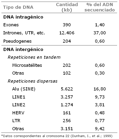 Tabla adaptada de Dunham, I., et al., The DNA sequence of human chromosome 22, Nature 402(6761):489–495, 1999.